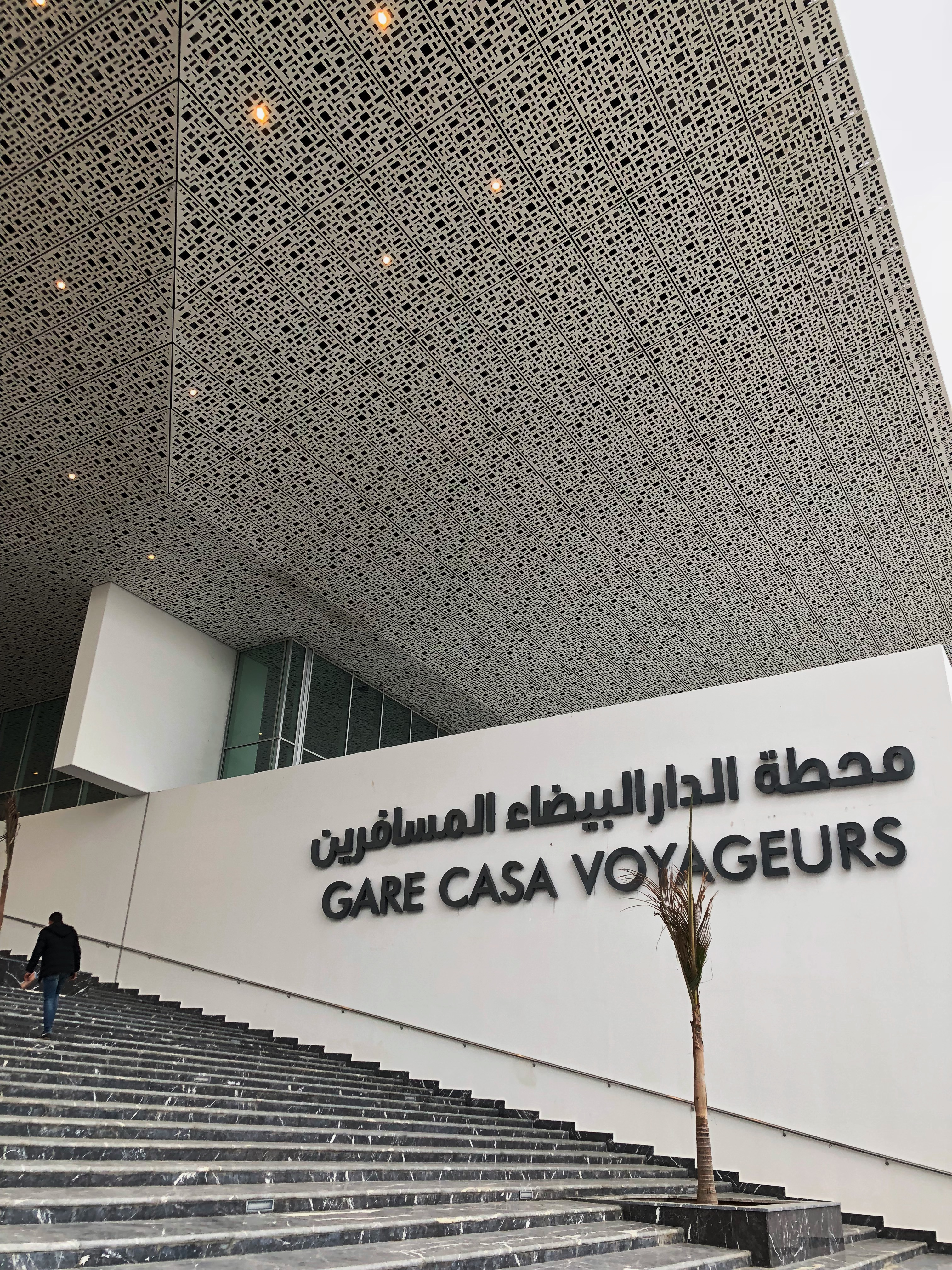 New additional building at Casa Voyageurs train station in Casablanca, Morocco